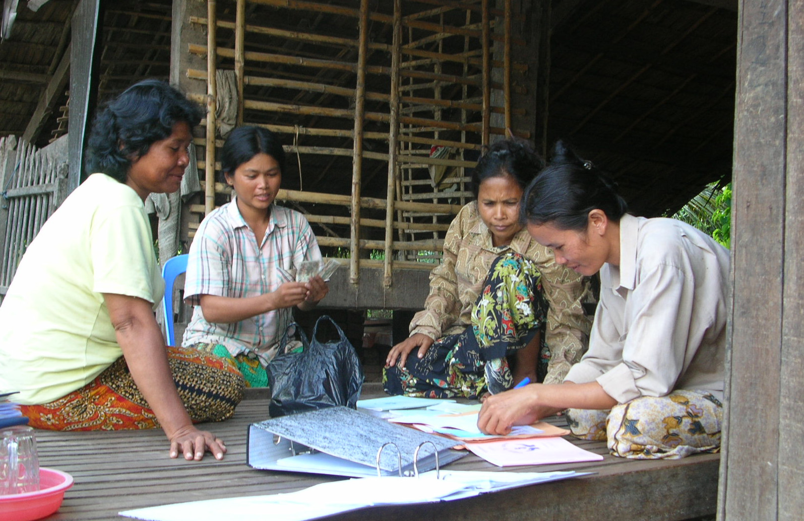 Community-based savings bank in Cambodia